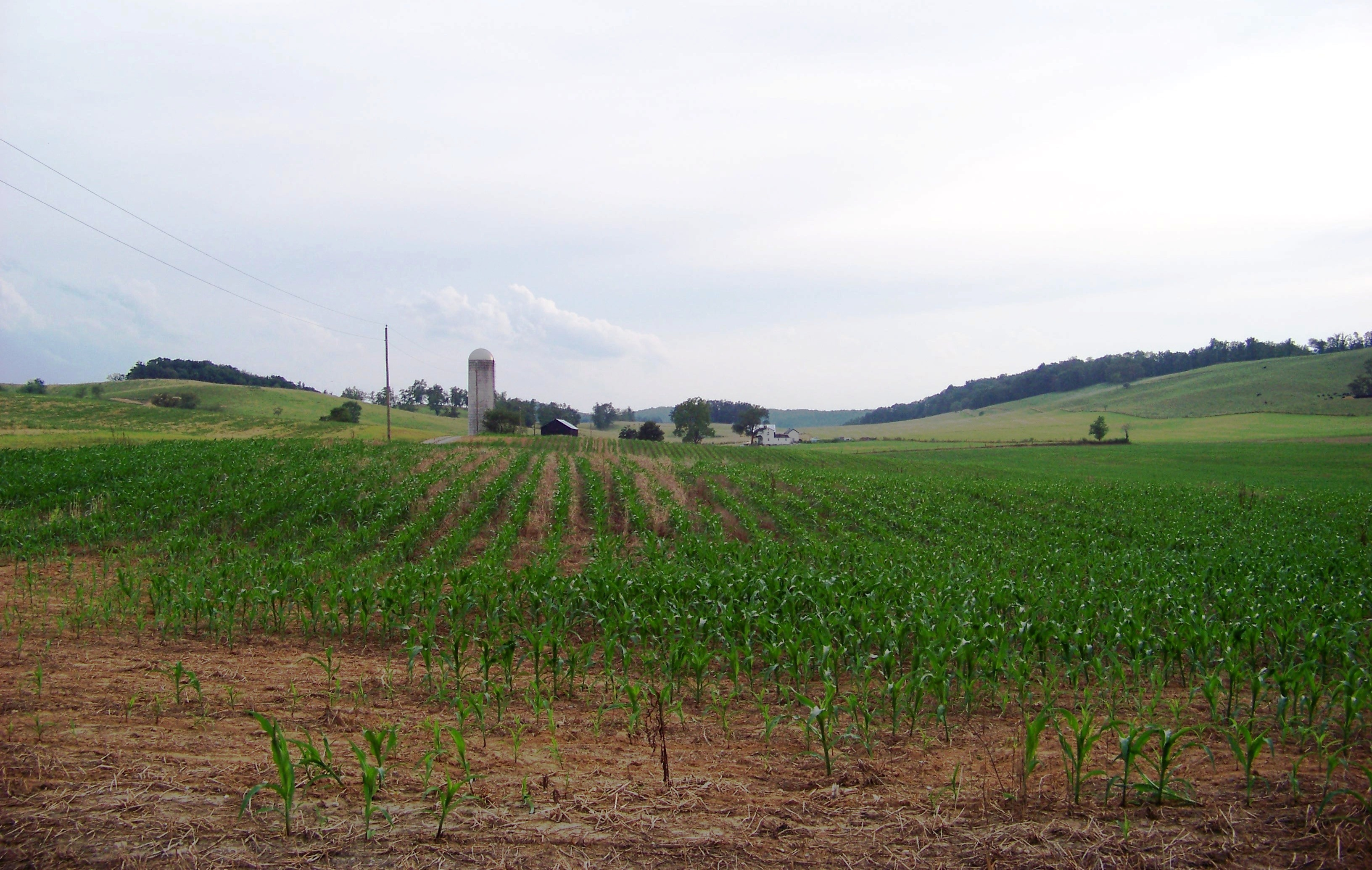 Riverheads, VA, USA